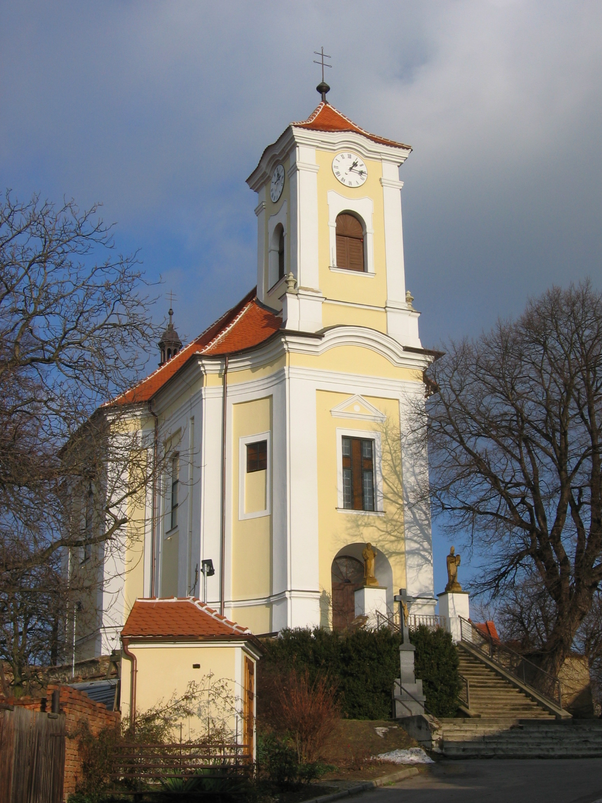 Church of the Assumption in Vlkoš, Hodonín District, Czech Republic